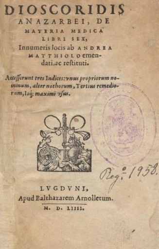 De Materia Medica, book 6 [libri sex], published in Lugdunum, 1554 [modern-day Lyon, France]